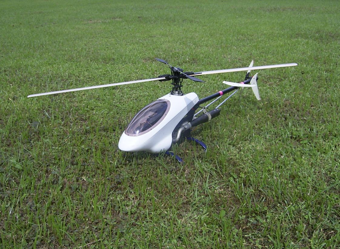 A 30 class RC helicopter